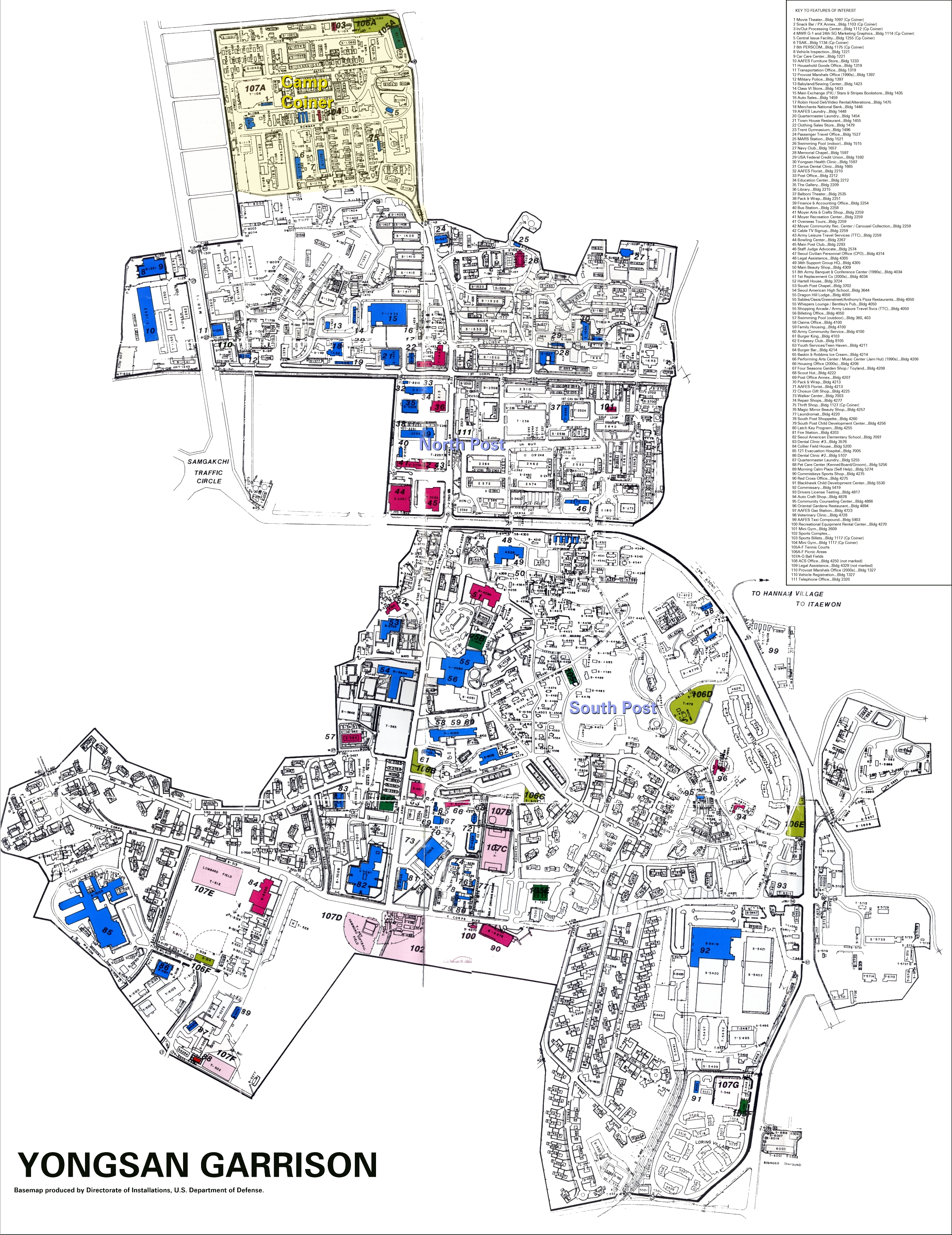 Yongsan Garrison Map, 1990. Master Plan of 1990, Directorate of Installations, United States Department of Defense.